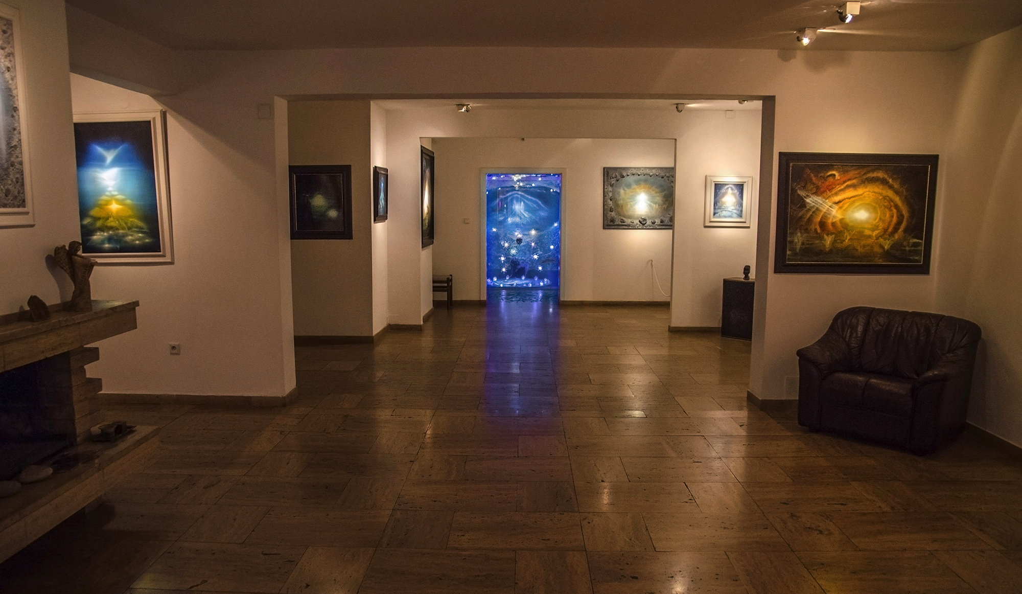 Gallery of the Way to the Light